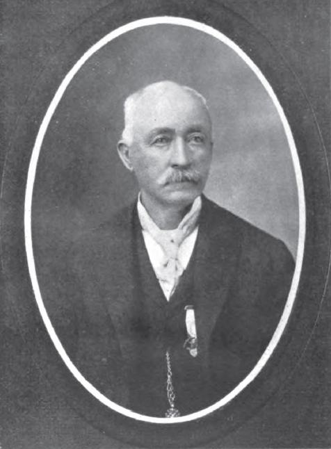 "Major" Andrew J. Doran (1840-07-11 – 1918-02-15), American politician, miner, and specialty carpenter.